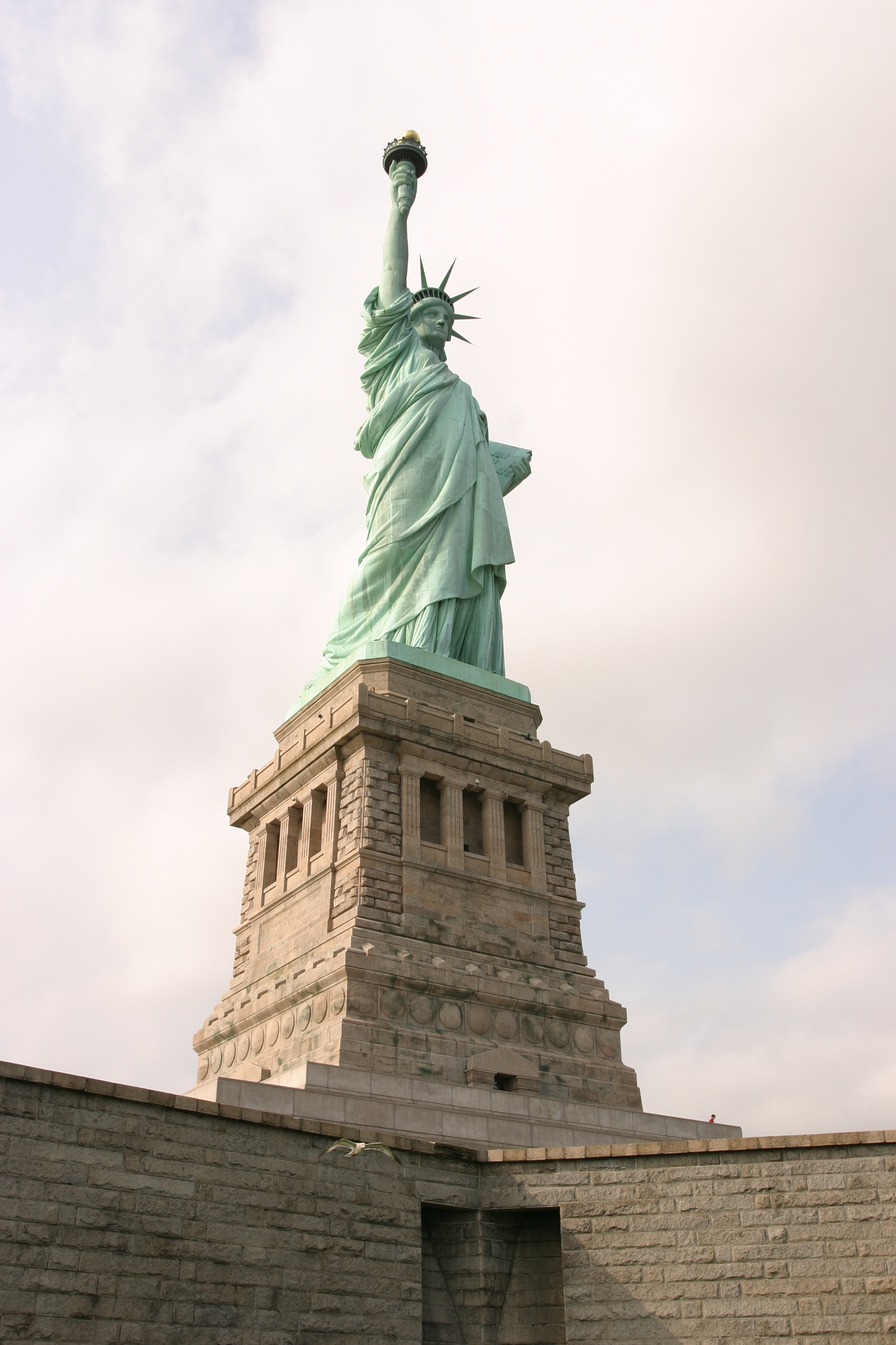 Statue of Liberty on Liberty Island, Upper New York Bay (August 2004).